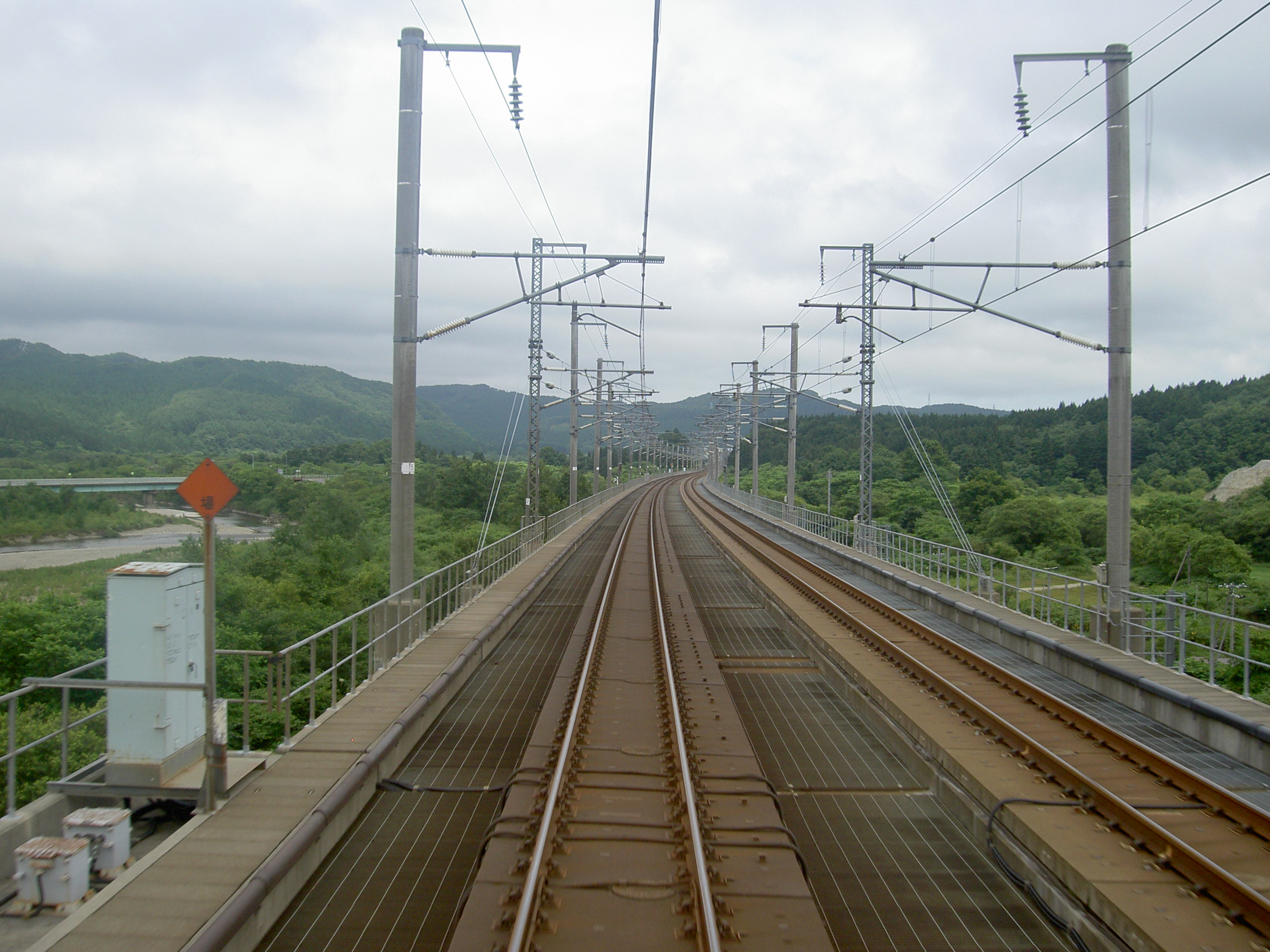 Tsugaru-Kaikyō Line (Kaikyō Line) between Tappi-Kaitei Station and Tsugaru-Imabetsu Station